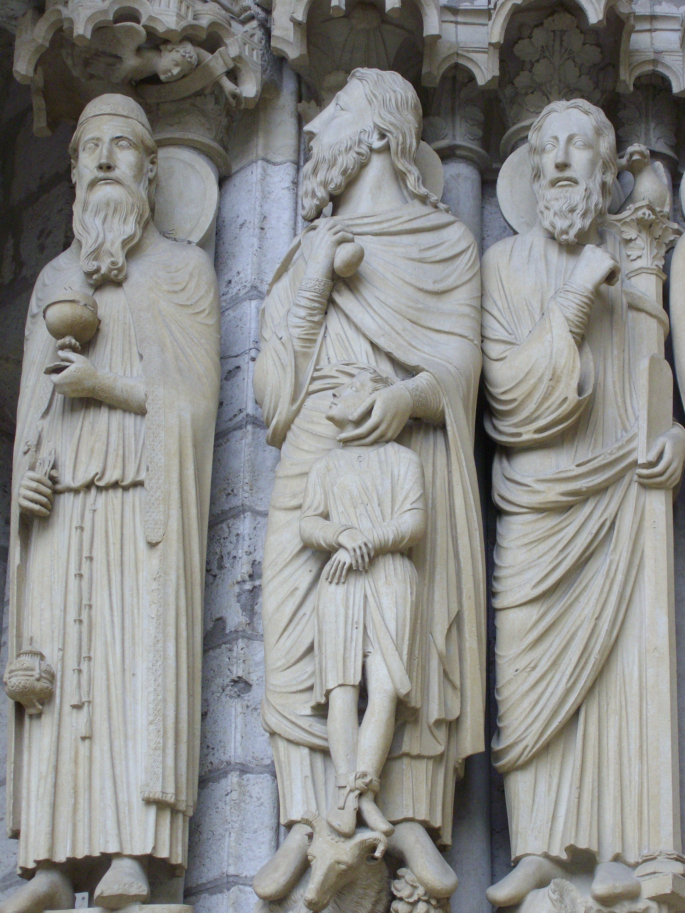 North porch of the Chartres Cathedral in Chartres (France)